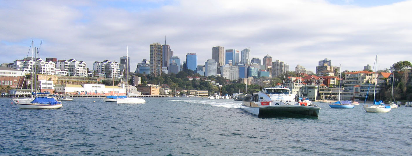 RiverCat ferry operating a Neutral Bay service